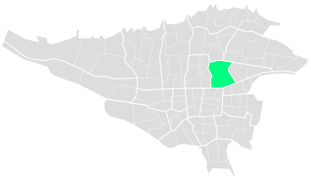 Region 7 of Tehran